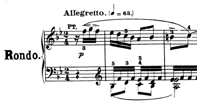 Incipit of the 4th movemnt from the Piano Sonata No. 11 (Beethoven) in B-flat major, Op.22.